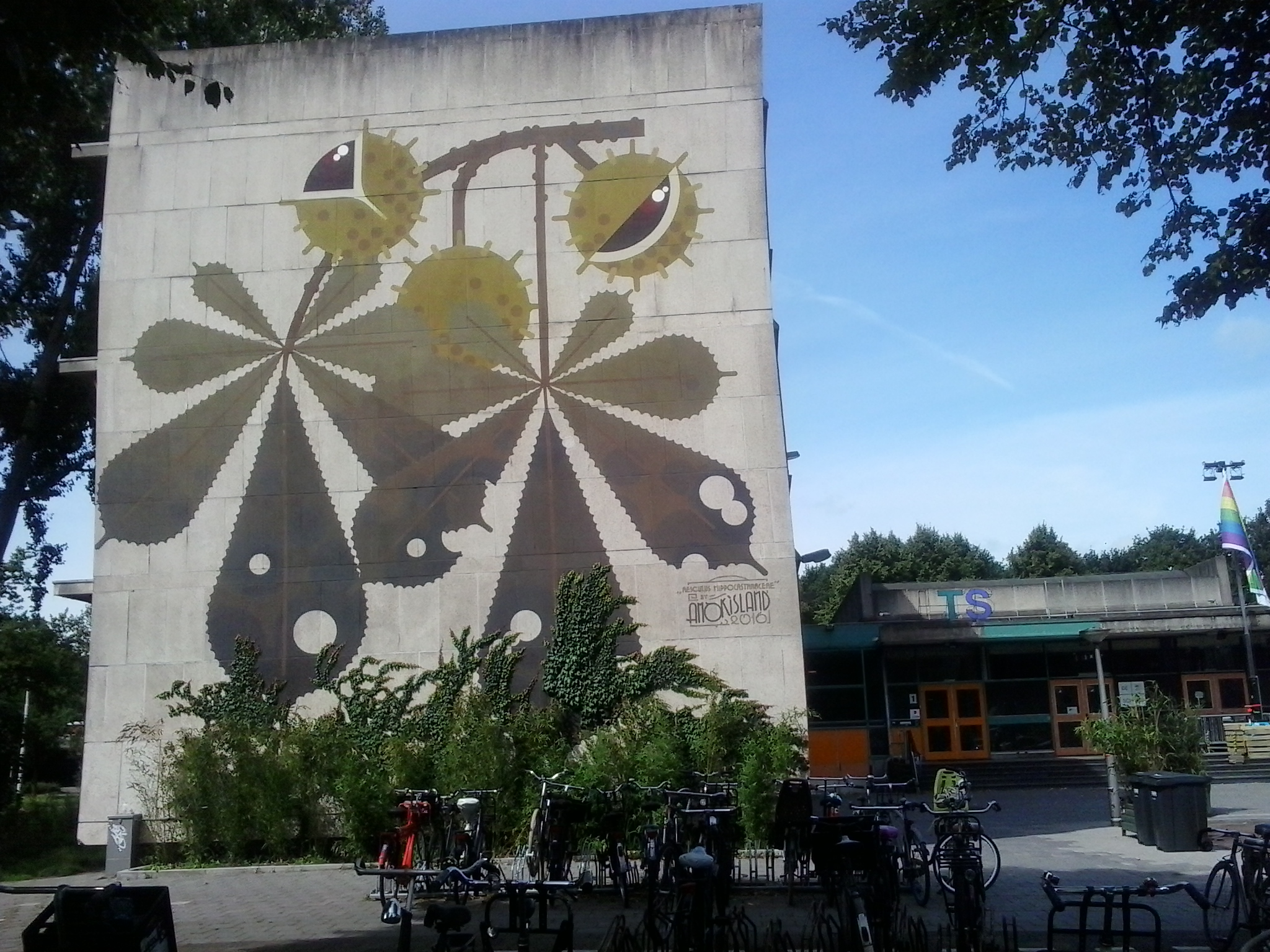 Mural by Amok Island of horse-chestnut (Aesculus hippocastanum) in Amsterdam-West.